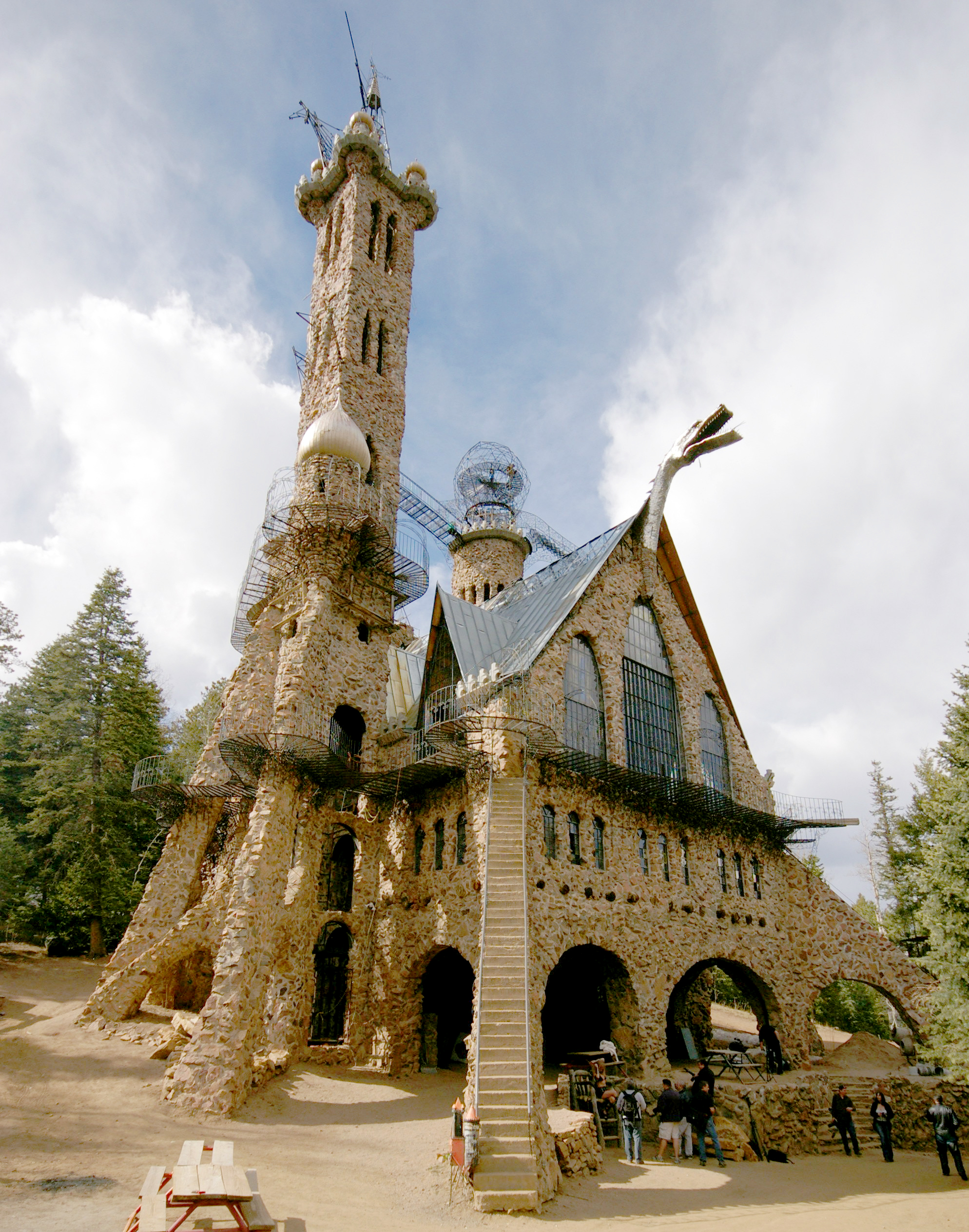 The Bishop Castle, near Fairview in Custer County.